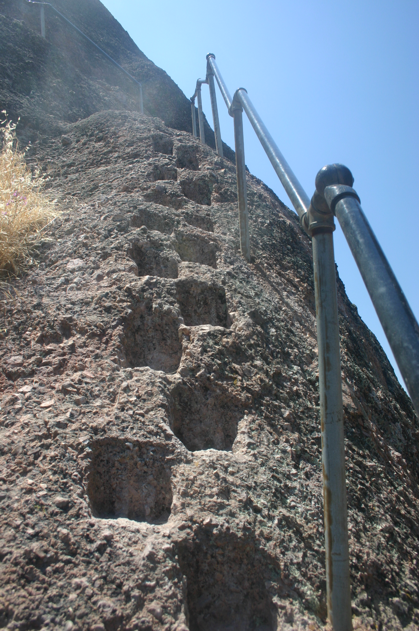 Step by Step (alternating tread stairs)